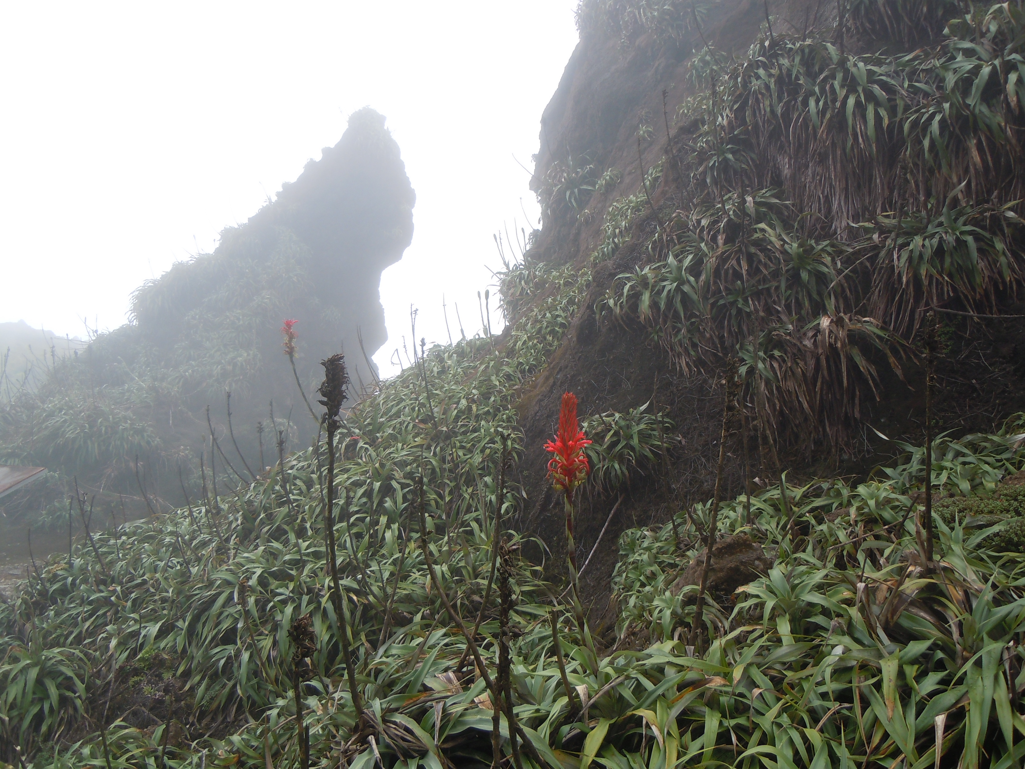 Portes de l'Enfer - Soufrière - Guadeloupe - Pitcairnia bifrons